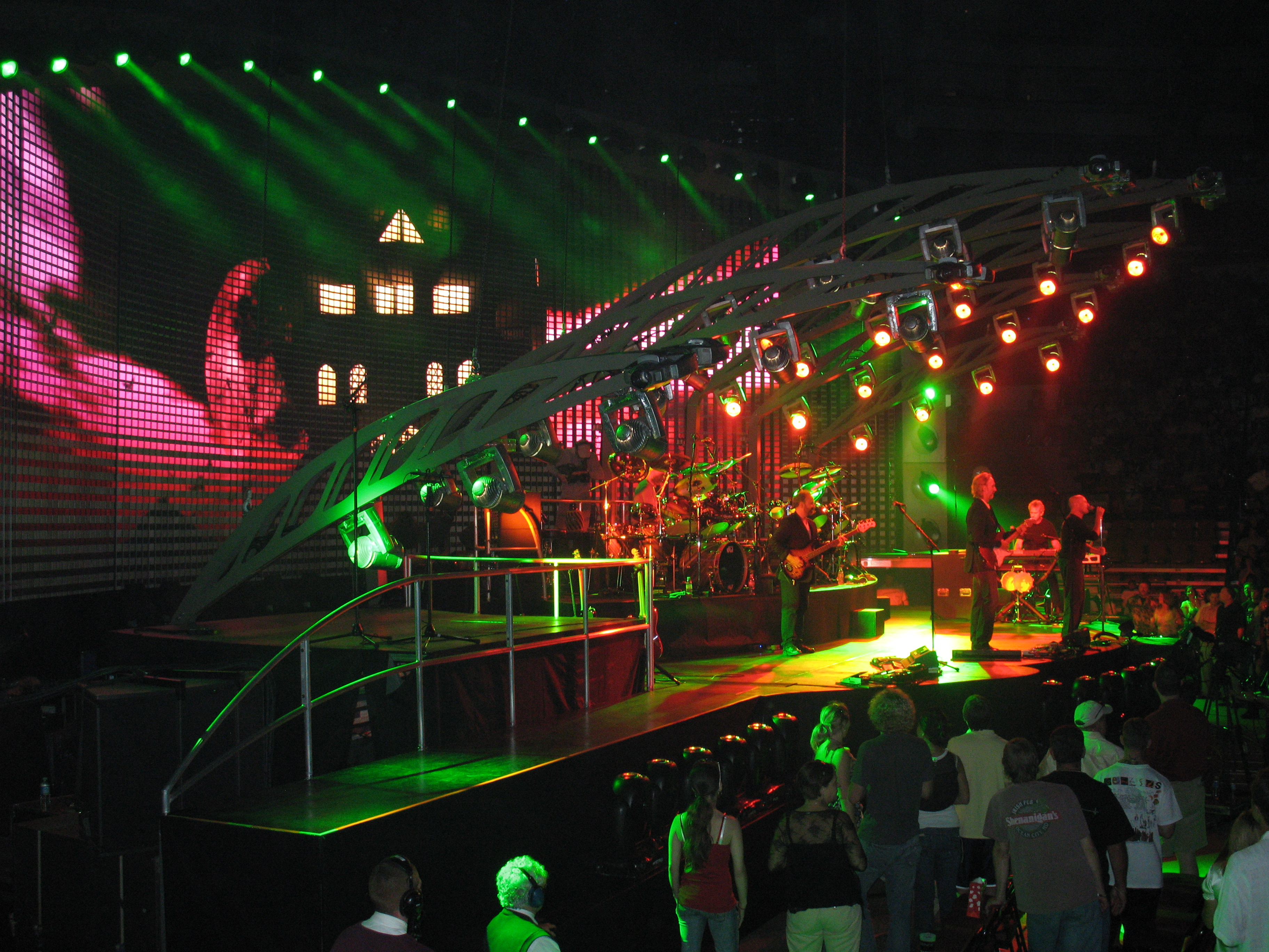 Genesis concert at the Mellon Arena, Pittsburgh, Pennsylvania, USA. Performing "Home By the Sea".